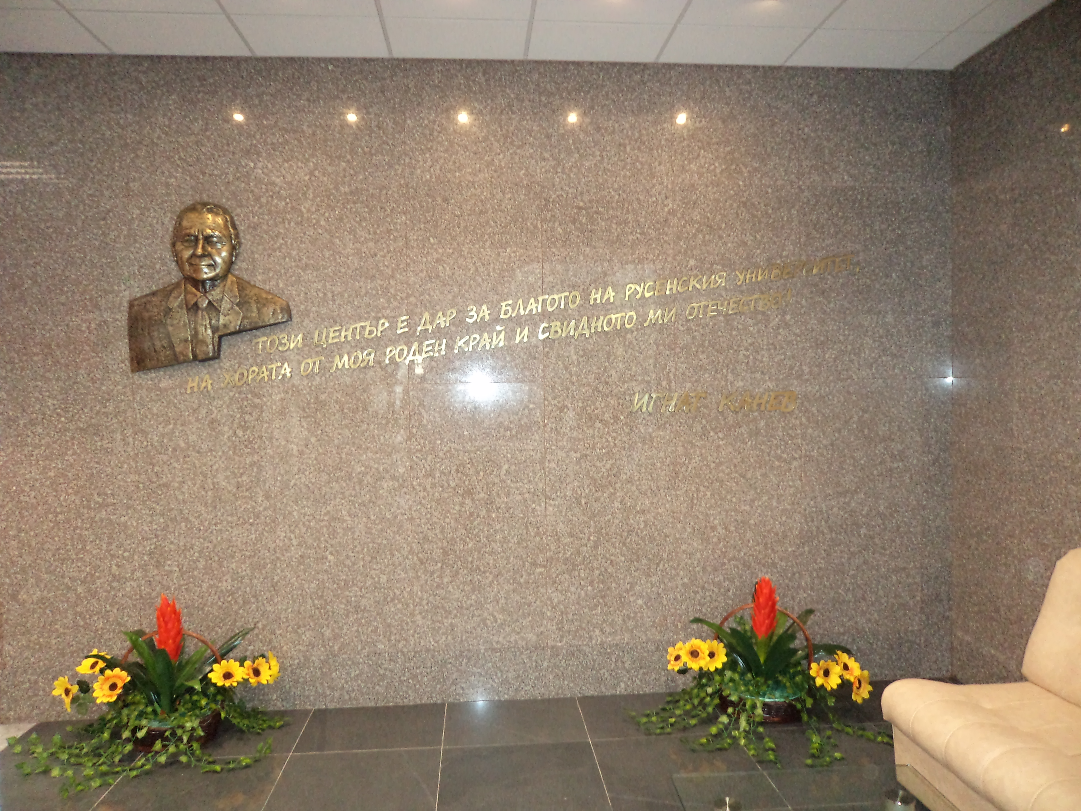 Rousse University, Kaneff Centre - Ignat Kaneff's Bas-relief